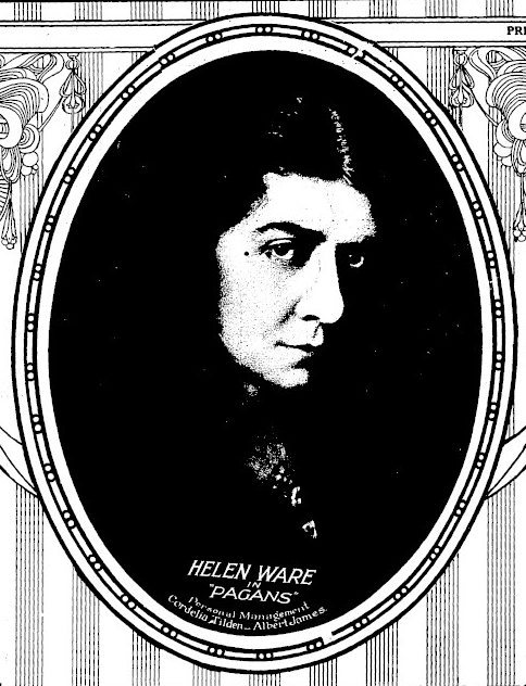 Helen Ware on the cover of the New York Clipper, January 5, 1921.